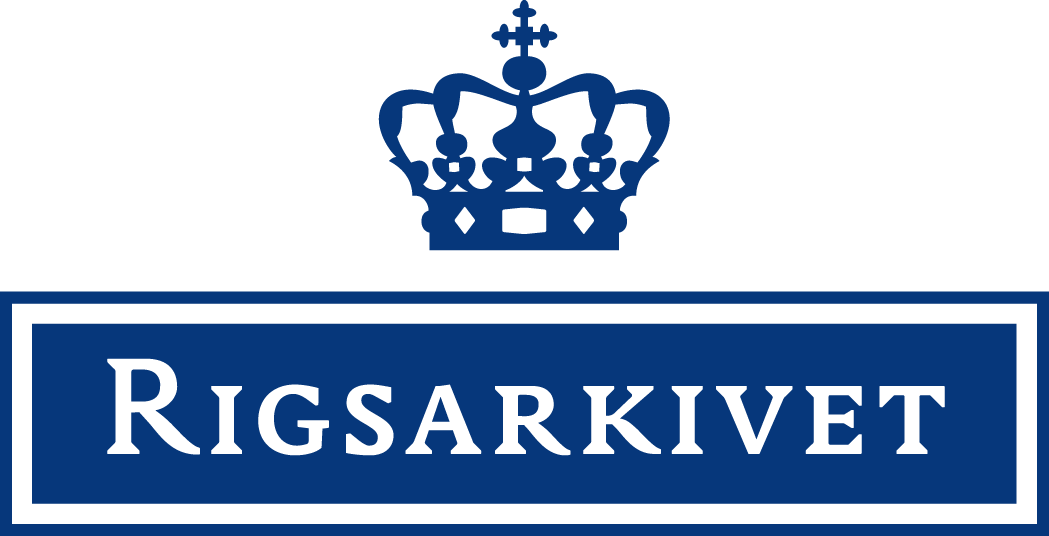 Logo of the Danish National Archives